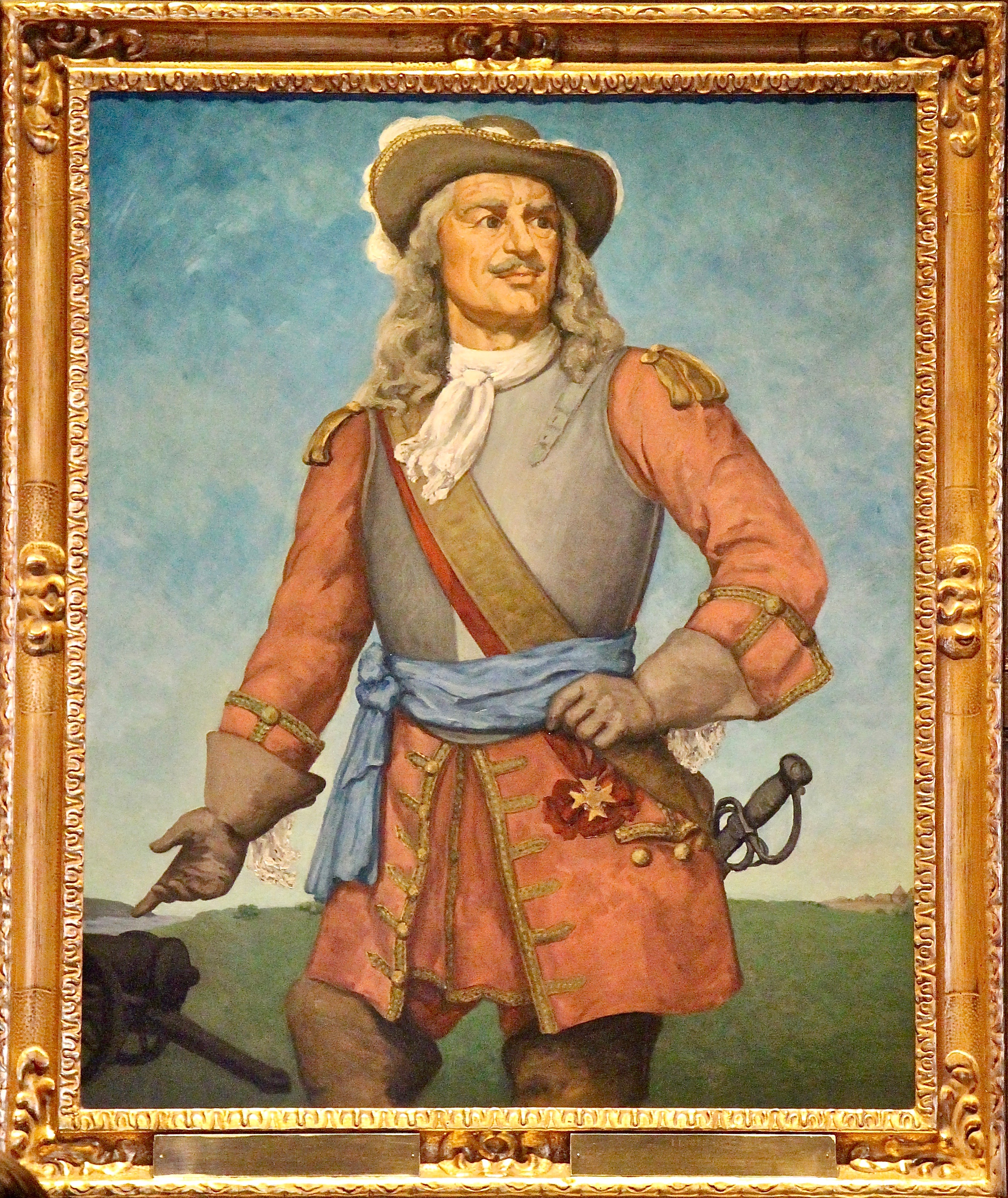 Portrait of Louis de Buade, Count of Frontenac, Lobby, Château Frontenac, 1, Des Carrières Street, Québec, Québec, G1R, Canada.